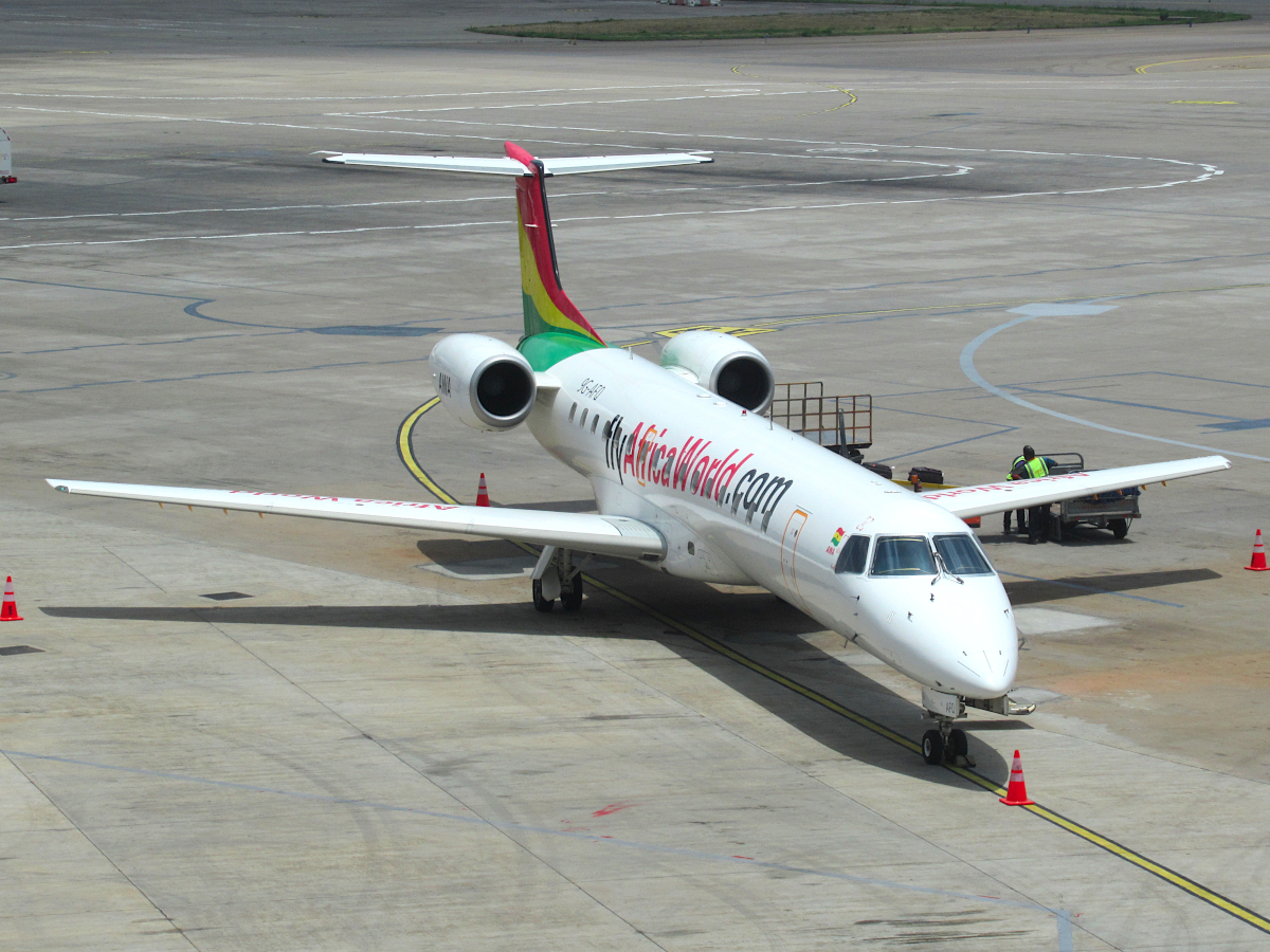 An Embraer ERJ-145LR of Africa World Airlines with registration 9G-AFQ parked at Nnamdi Azikiwe International Airport in Abuja, Nigeria